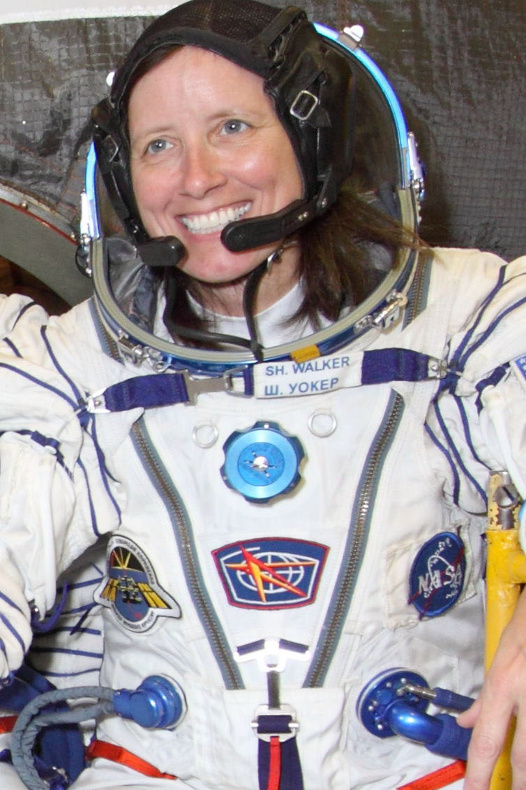 From left, NASA astronaut Doug Wheelock, Russian cosmonaut Fyodor Yurchikhin, and NASA astronaut Shannon Walker take a break from training and launch preparations for a portrait with their Soyuz TMA-19 spacecraft at the Baikonur Cosmodrome.